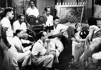 Ellis R. Dungan directing S. D. Santhanalakshmi and M. K. Thyagaraja Bhagavathar in the 1937 Tamil film Ambikapathi